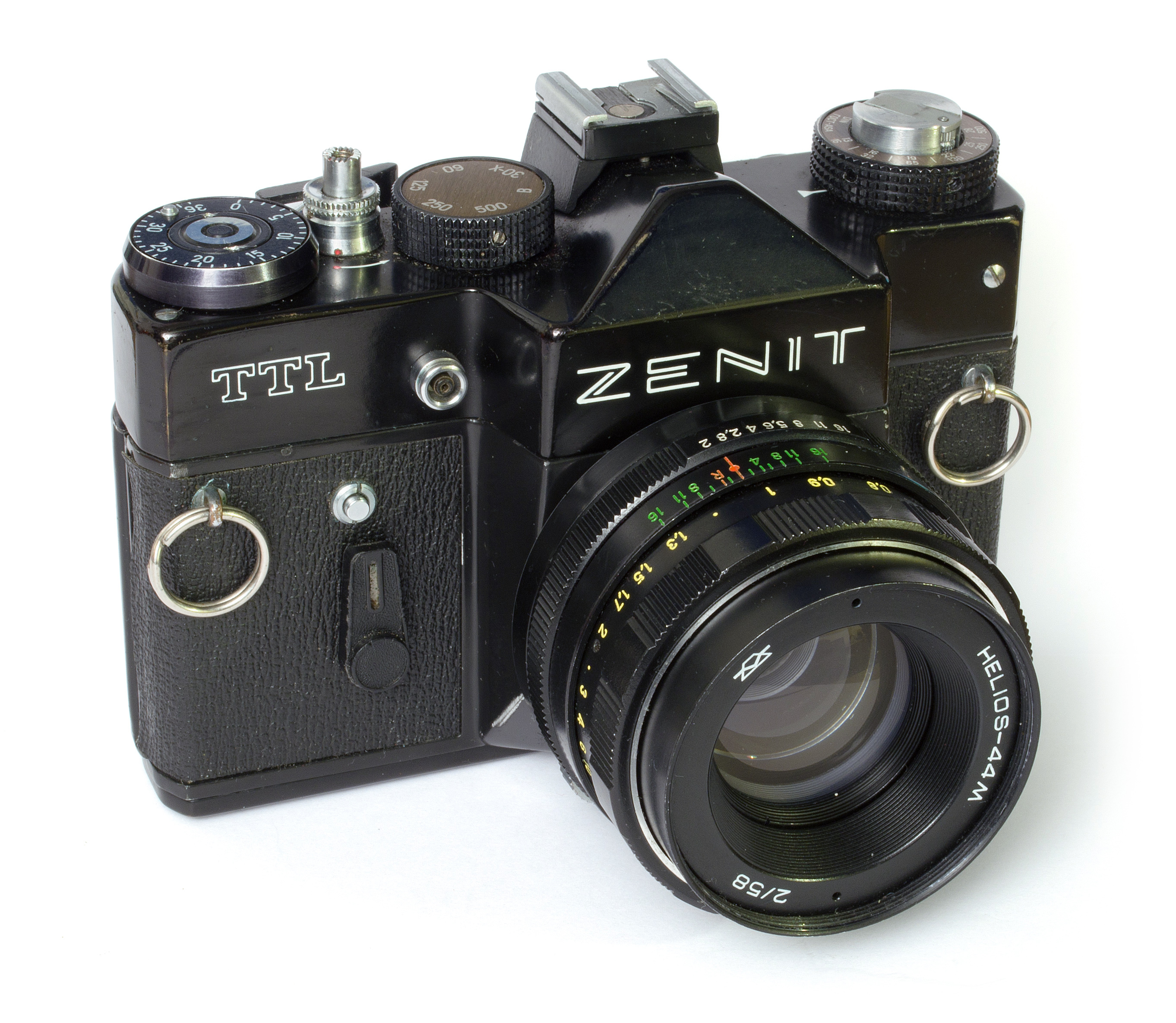 Zenit TTL camera seen from the front, slightly at an angle and from above. (Bought secondhand in Scotland in mid-1980s).